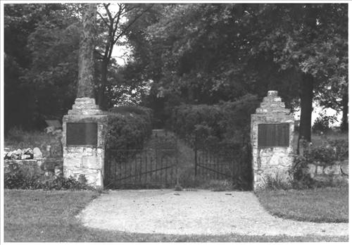 The entrance to Brainerd Cemetery, Brainerd Mission, Chattanooga, Tennessee by the National Park Service